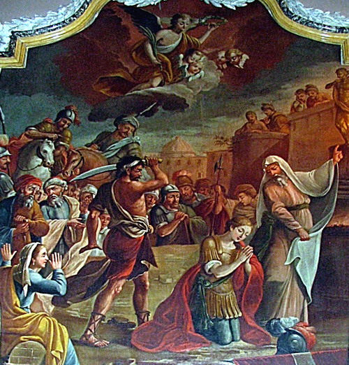 Martyrium of San Secondo, oil painting in San Secondo's Collegiata, Asti